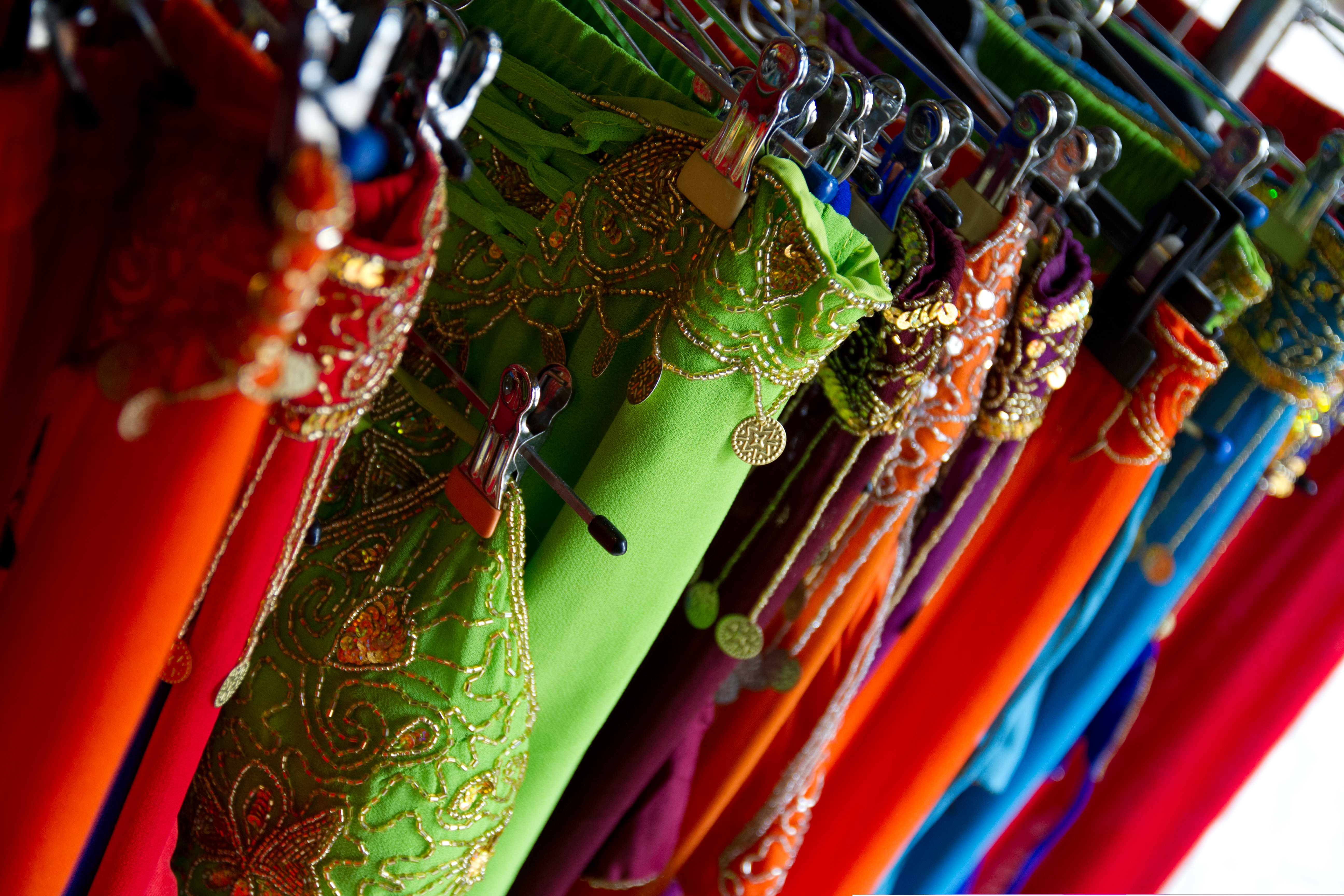 From marketplace in Sarajevo